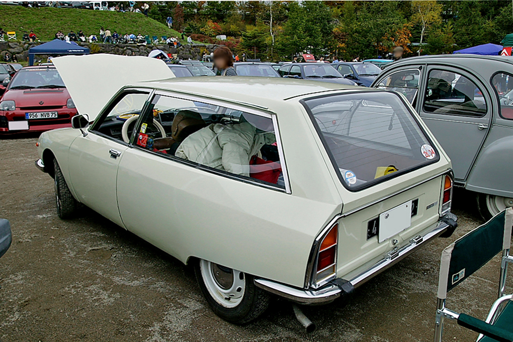 Citroën GS 1220 Club Shooting brake.